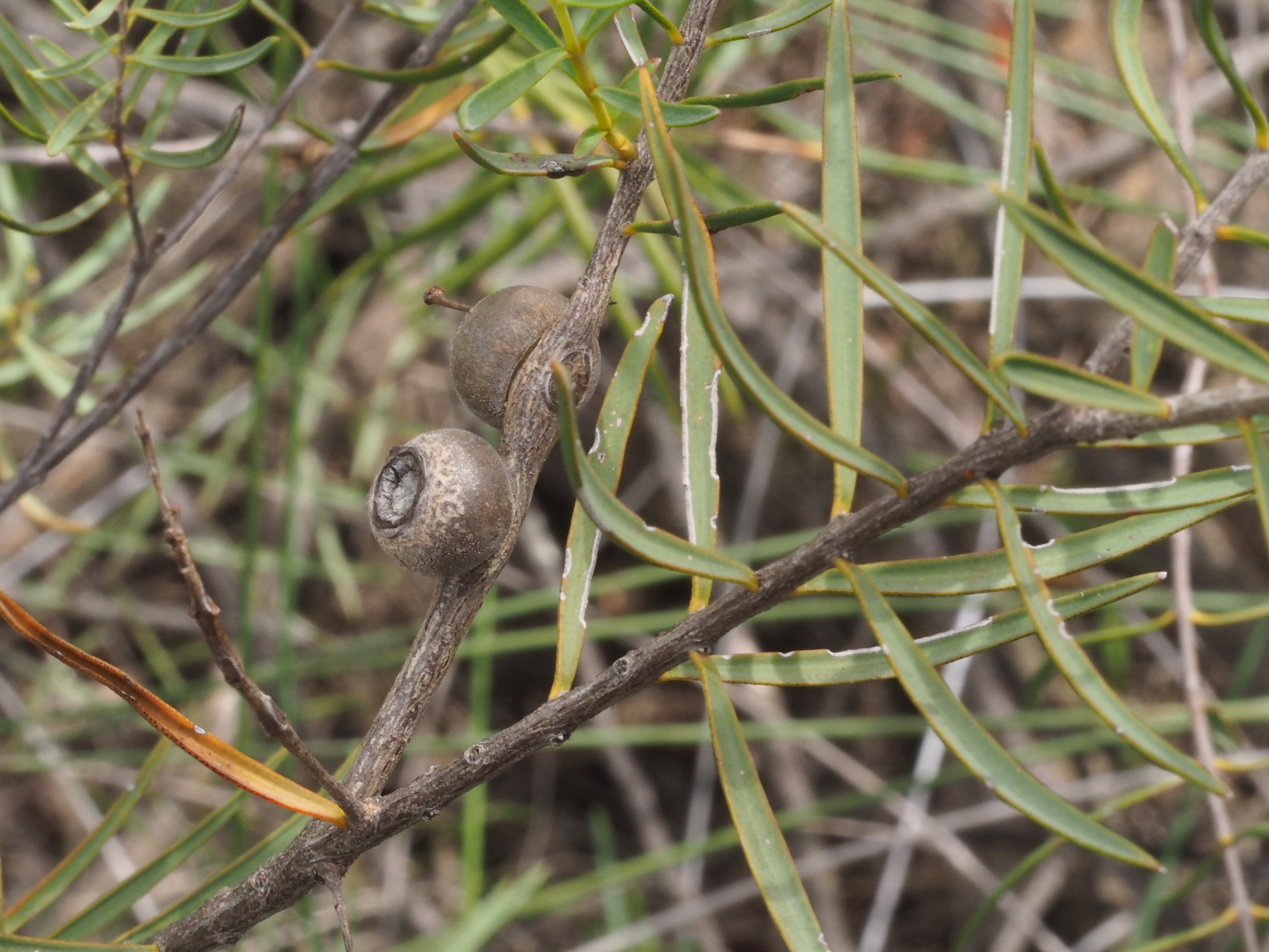 Melaleuca radula growing on Mount O'Brien near Wongan Hills